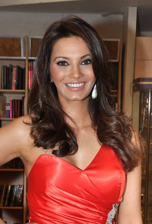 Diana Hayden launches her own book on women's grooming